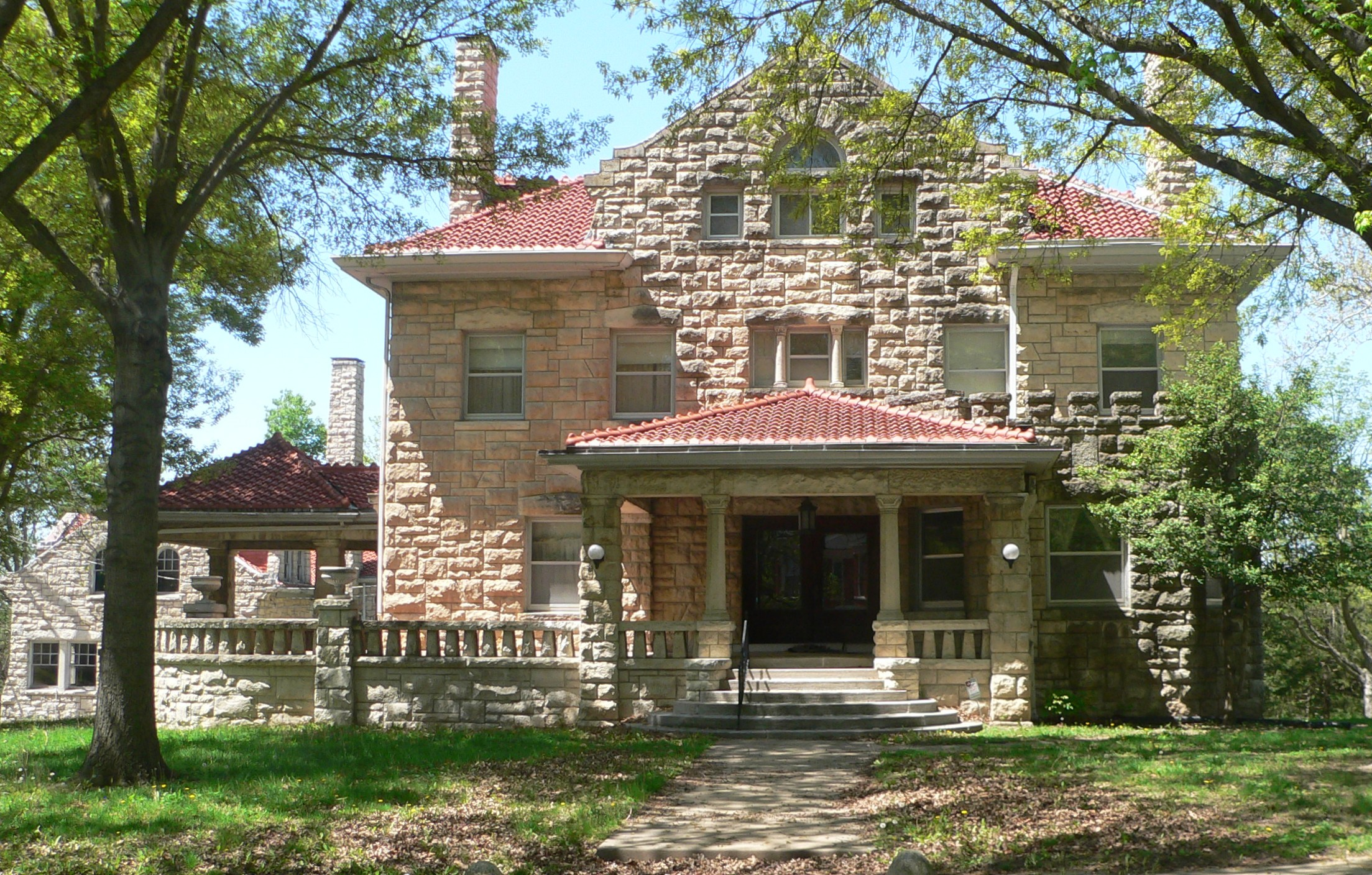 Francis and Harriet Baker house, at southwest corner of 5th and Mound Streets in Atchison, Kansas; seen from the east, across 5th.